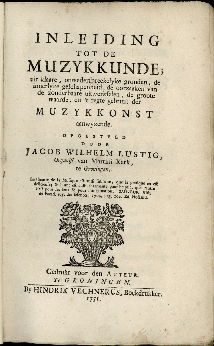 Title page of Jacob Wilhelm Lustig's Inleiding tot de muzykkunde